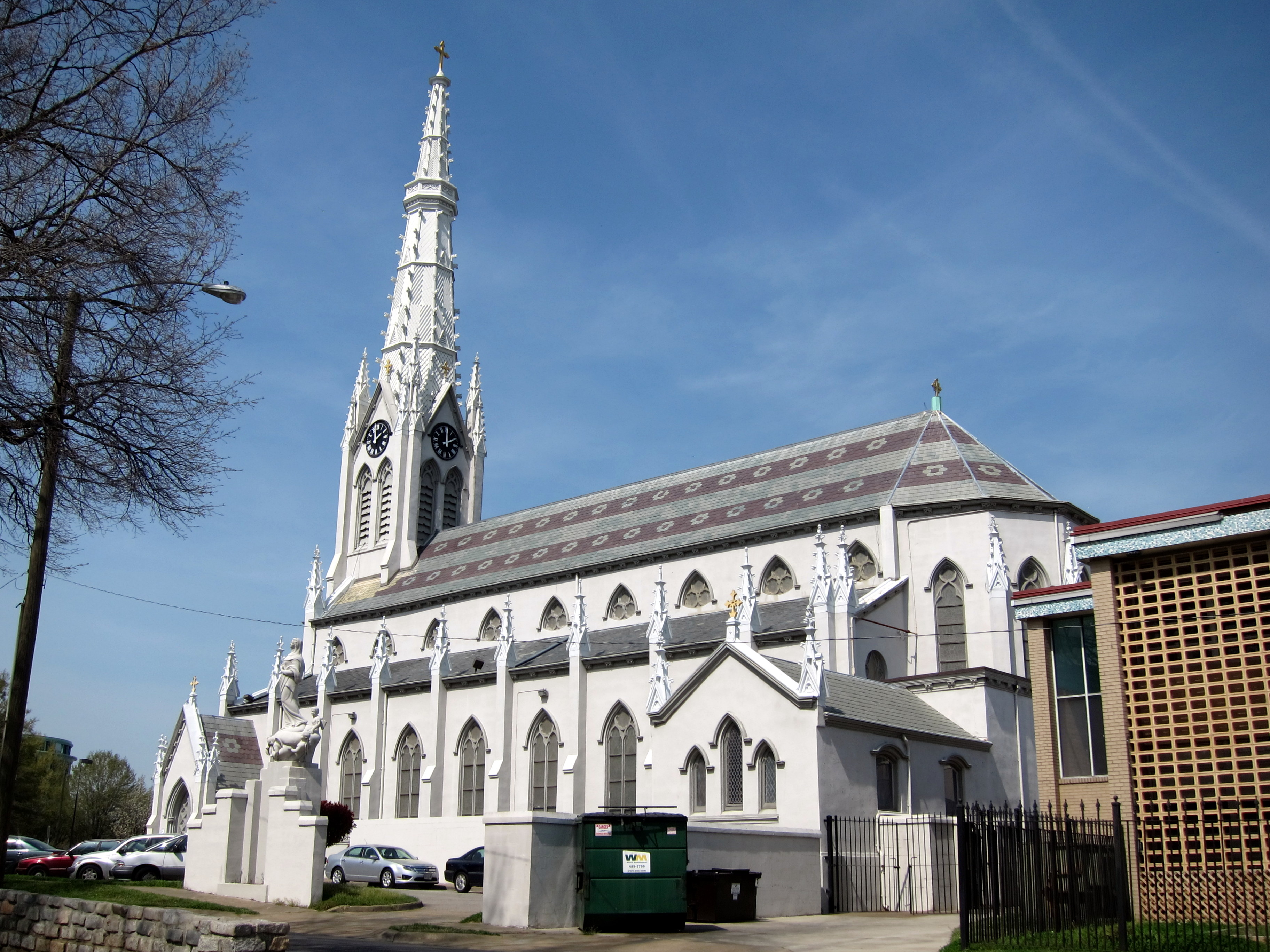 Basilica of Saint Mary of the Immaculate Conception (Norfolk, Virginia), exterior, rear quarter view